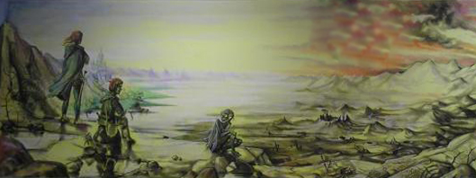 Frodo, Sam and Gollum in Emyn Muil.